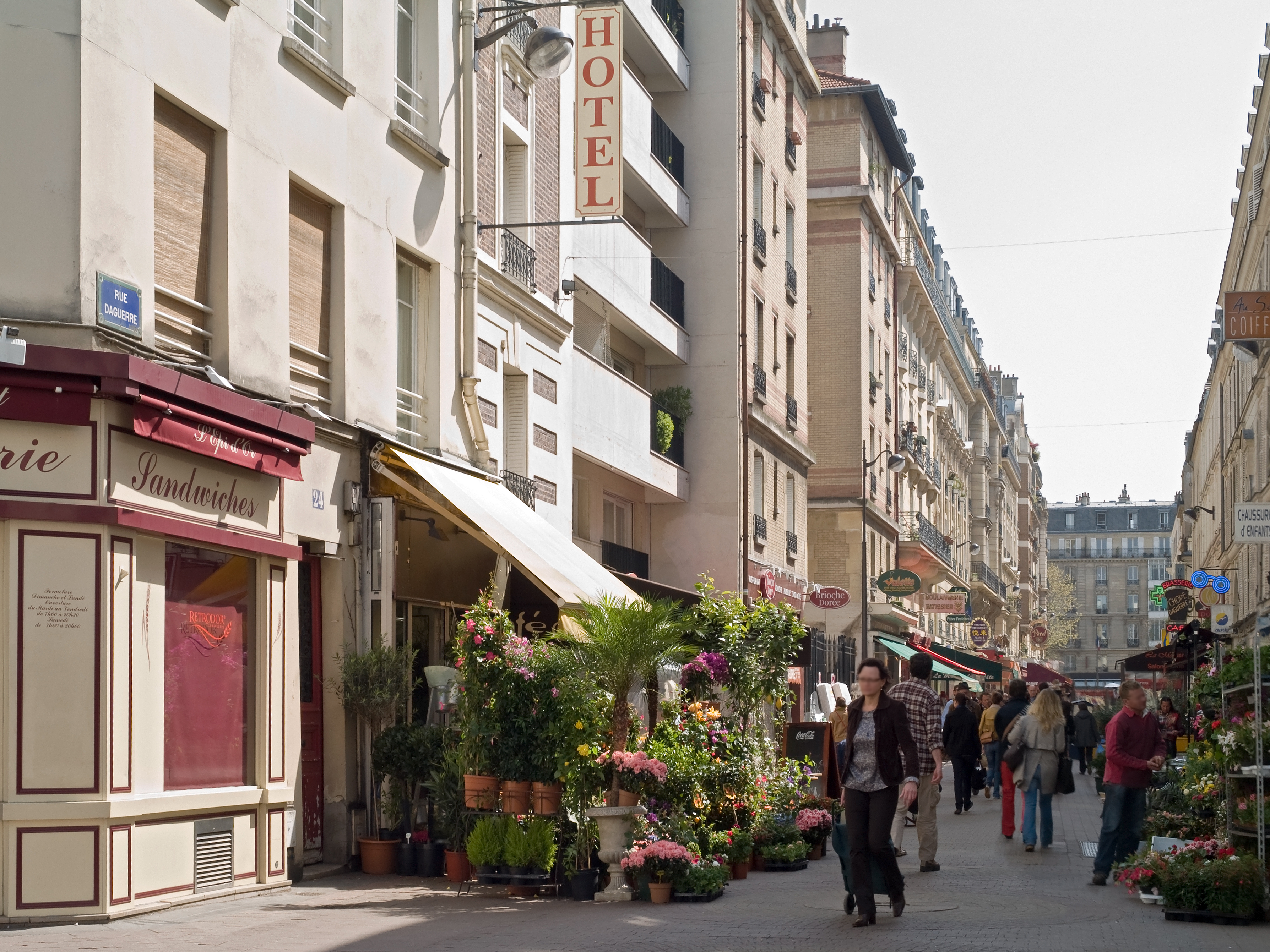 The pedestrian part of the 'rue Daguerre', in Paris (France)